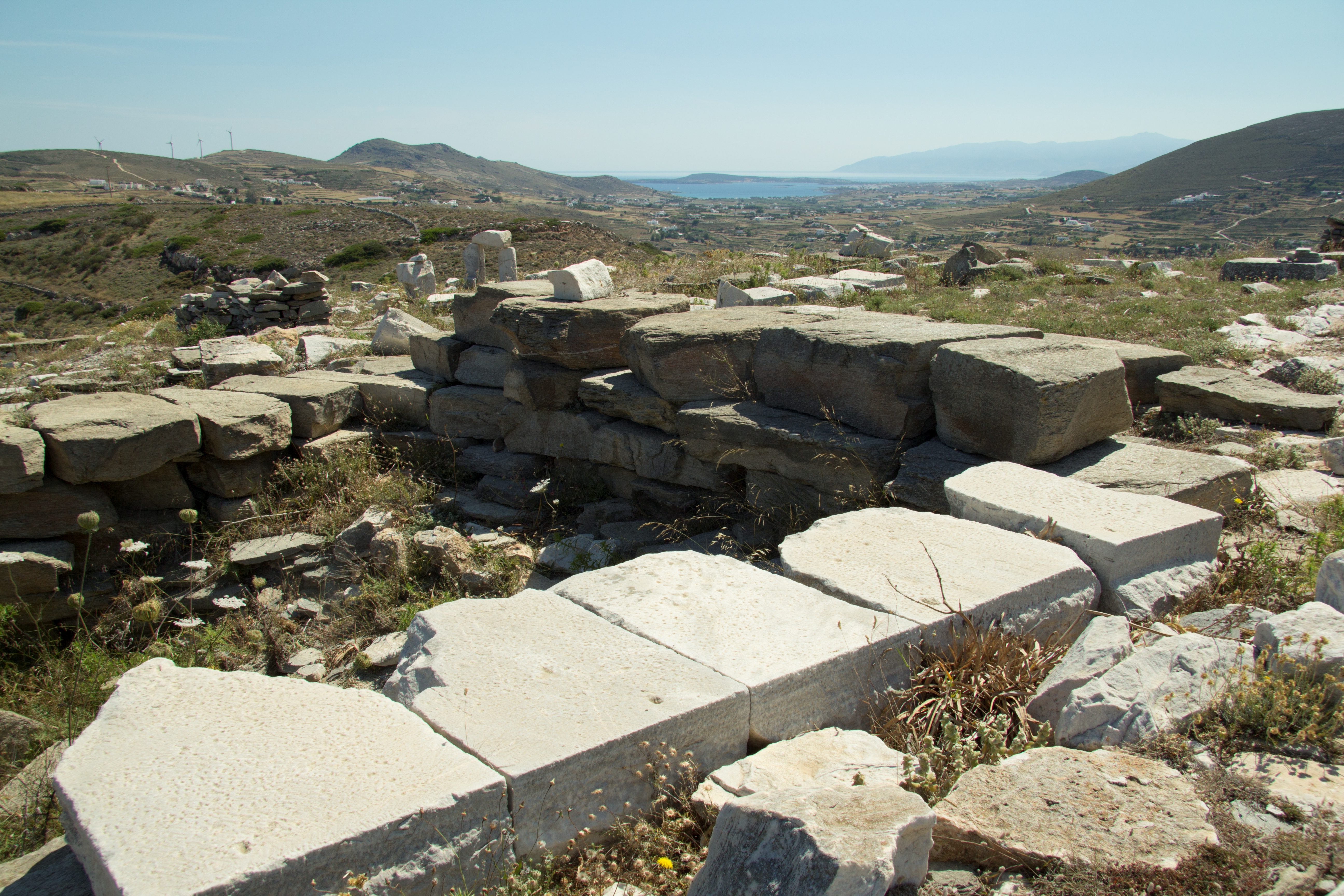 Delion on Paros. View to the northwest, towards Koukounaries, Plastiras and Naoussa bay.